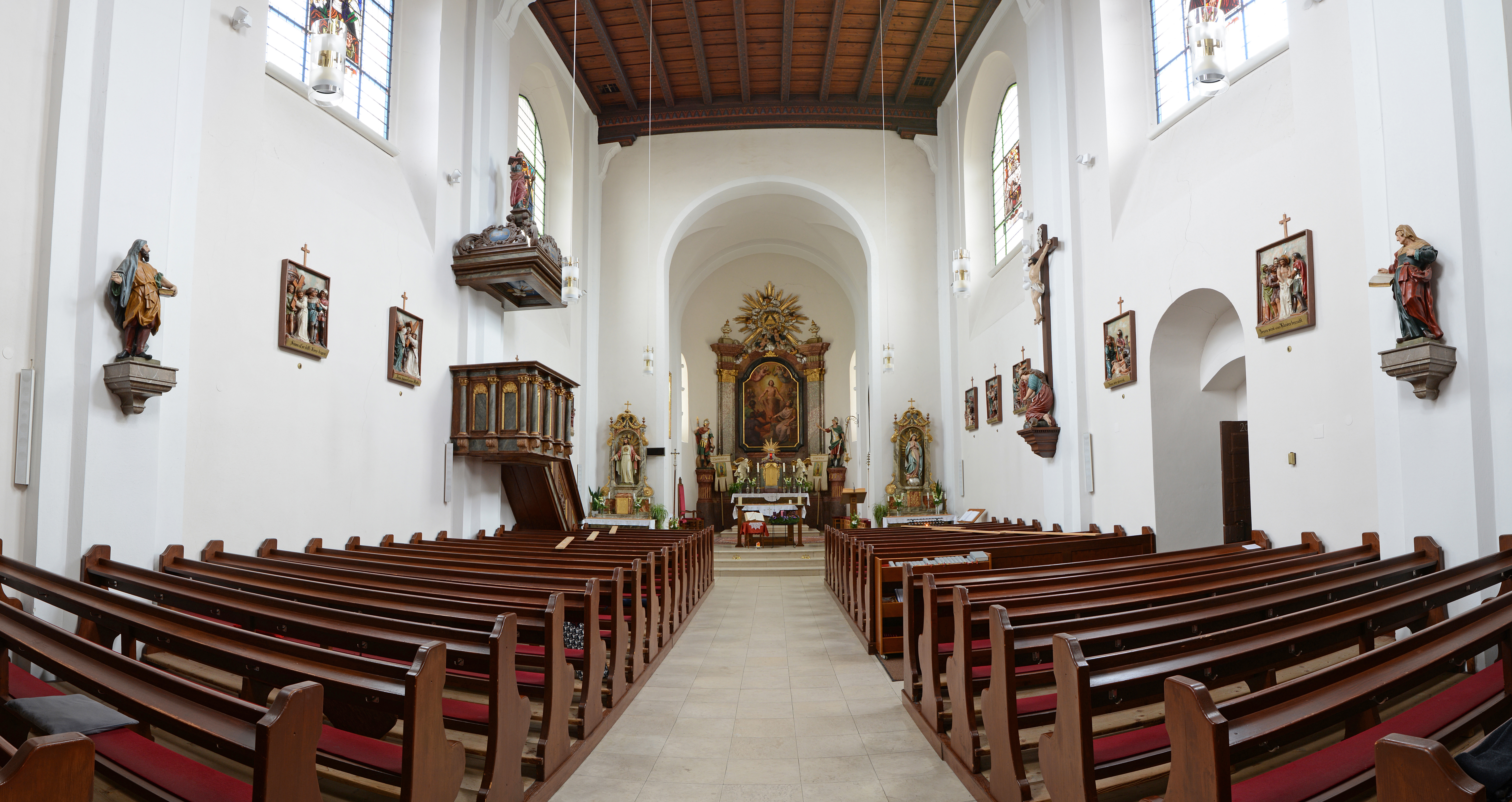 Inside view of the catholic parish church at Drasenhofen, Lower Austria, Austria